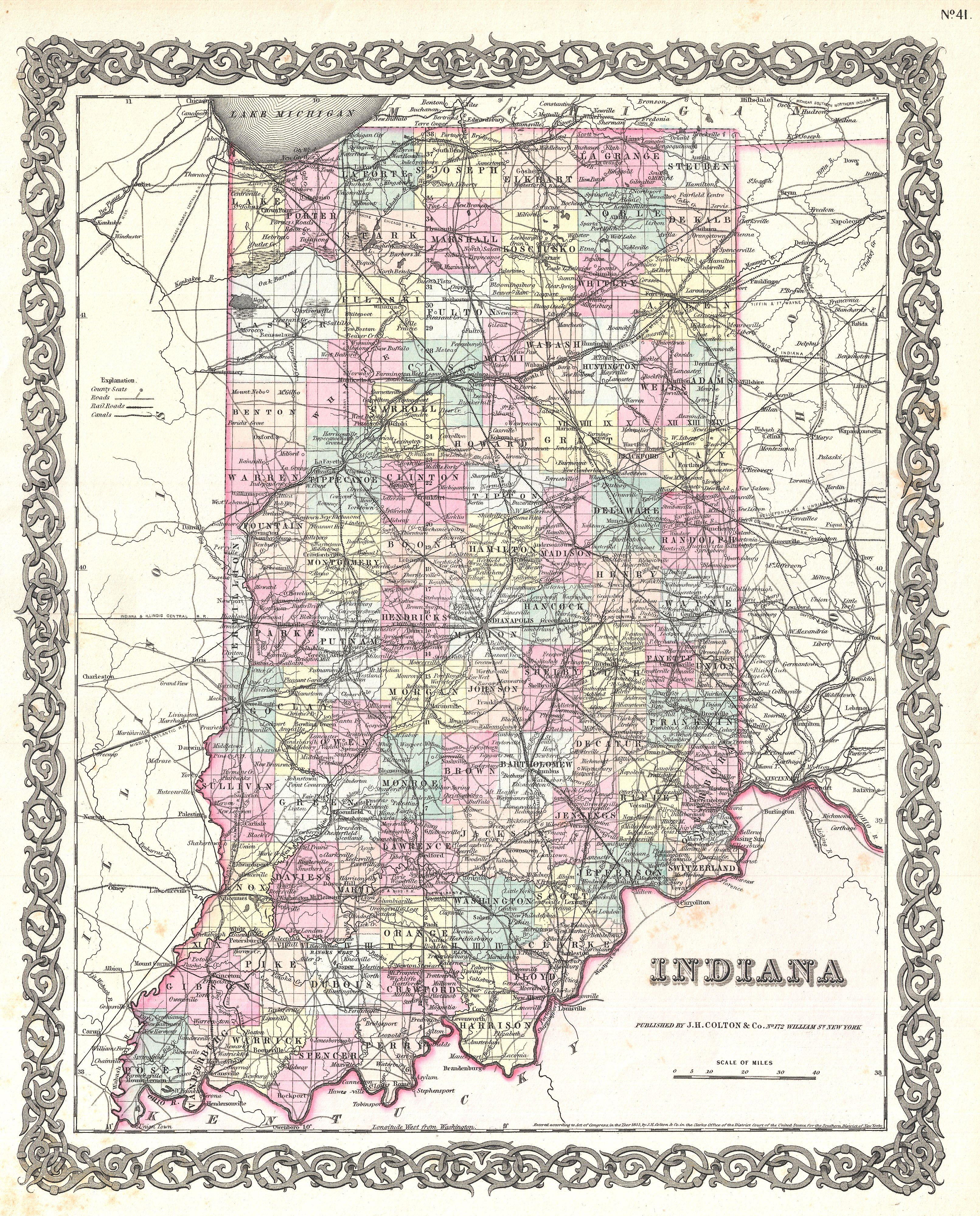 A beautiful 1855 first edition example of Colton's map of Indiana. Covers Indiana in full as well as parts of adjacent states. Like most of Colton's state maps, this map is largely derived from an earlier wall map of North America produced by Colton and D. Griffing Johnson. Colton identifies various cities, towns, forts, rivers, rapids, fords, and an assortment of additional topographical details. Map is hand colored in pink, green, yellow and blue pastels to define county and state boundaries. Surrounded by Colton's typical spiral motif border. Dated and copyrighted to J. H. Colton, 1855. Published from Colton's 172 William Street Office in New York City. Issued as page no. 41 in volume 1 of the first edition of George Washington Colton's 1855 Atlas of the World .